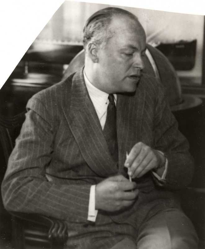 Norwegian shipping magnate Leif Høegh (1896–1974). Photo about 1935.